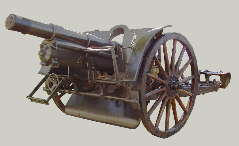 Howitzer Skoda 100 mm M.14/19, Brazilian Army Museum in Forte de Copacabana, Rio de Janeiro, Brazil (not a Polish wz.14/19 howitzer)